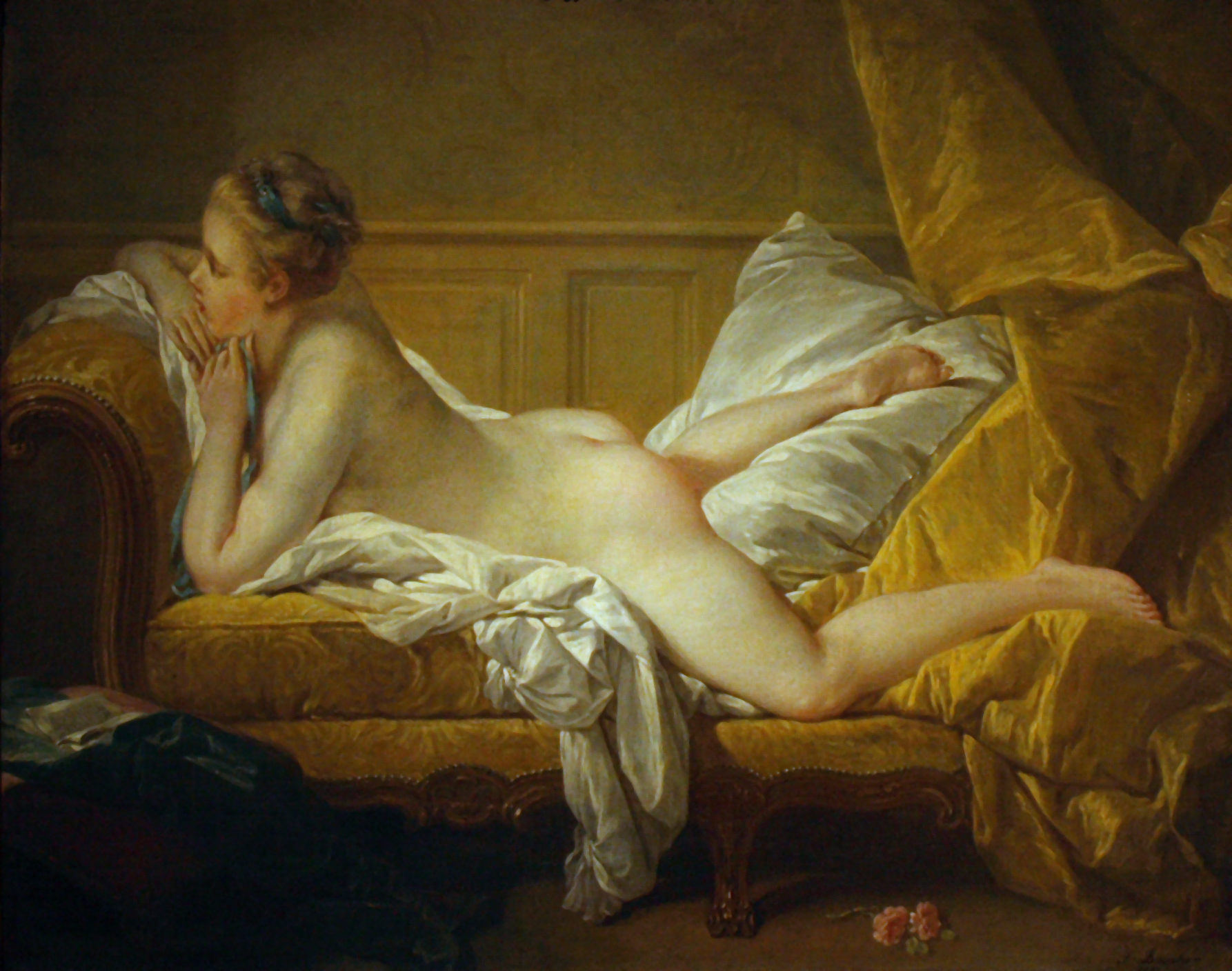 Probably a portrait of Marie-Louise O'Murphy (21 October 1737 – 11 December 1814), mistress to Louis XV of France.